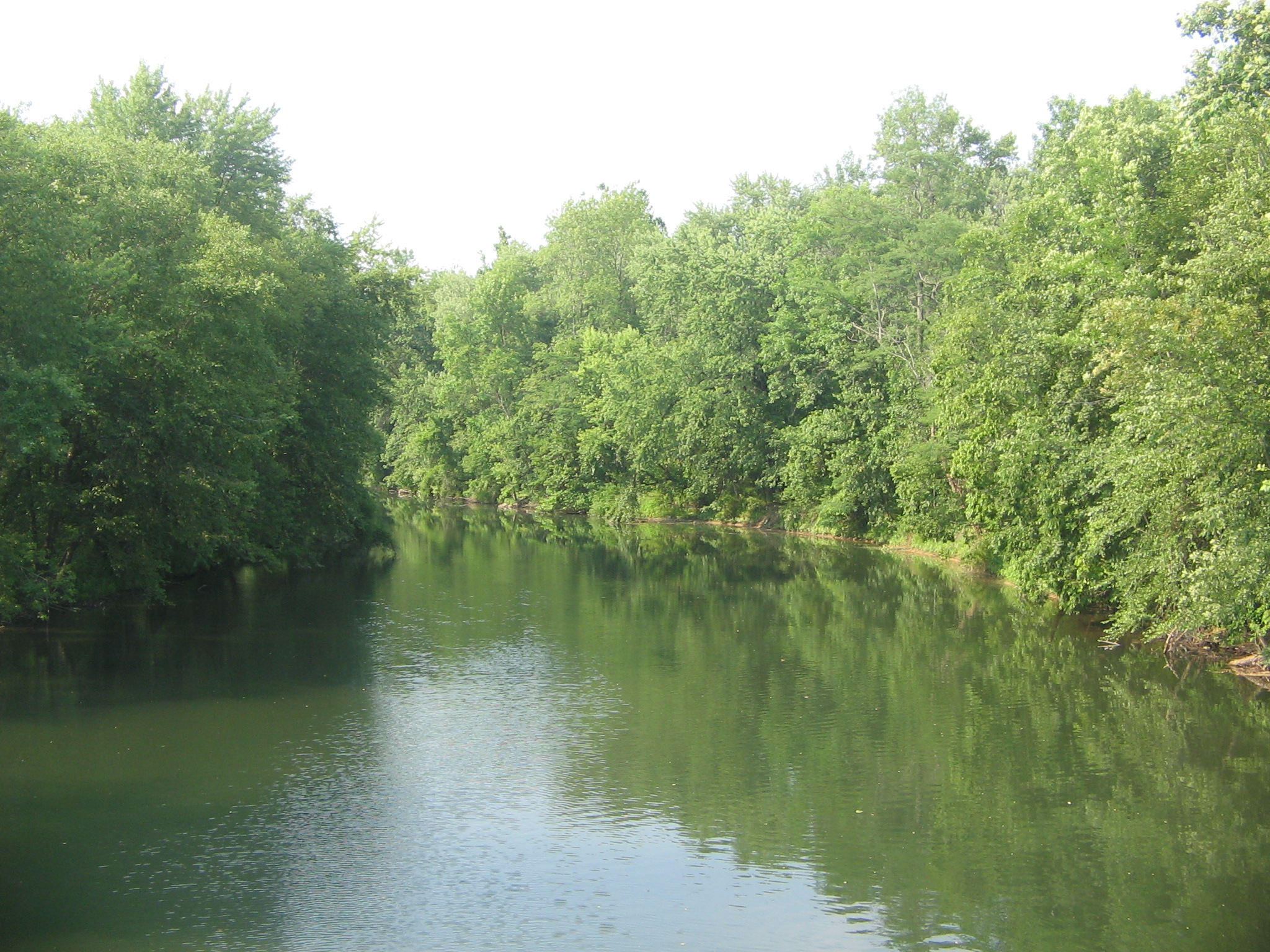 Bald Eagle Creek (West Branch Susquehanna River tributary) from PA Route 150, Clinton County, Pennsylvania, USA. I am pretty sure this is from the bridge upstream of Mill Hall in Bald Eagle Township. I think the view is upstream.